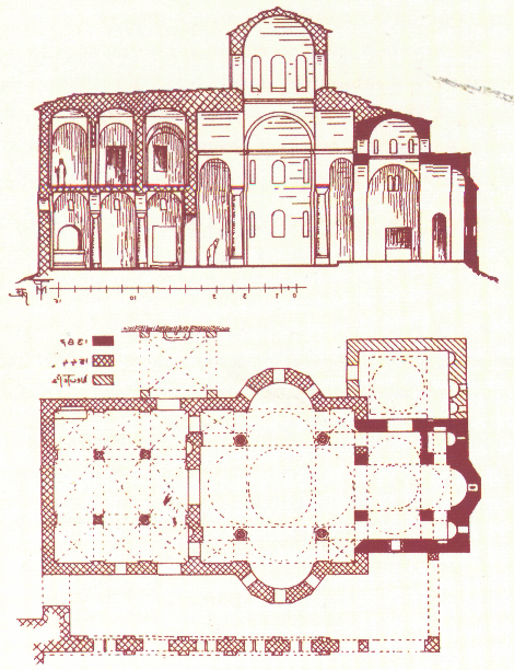 Megala Meteora